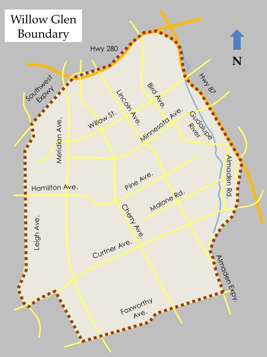 Rough Willow Glen Boundary